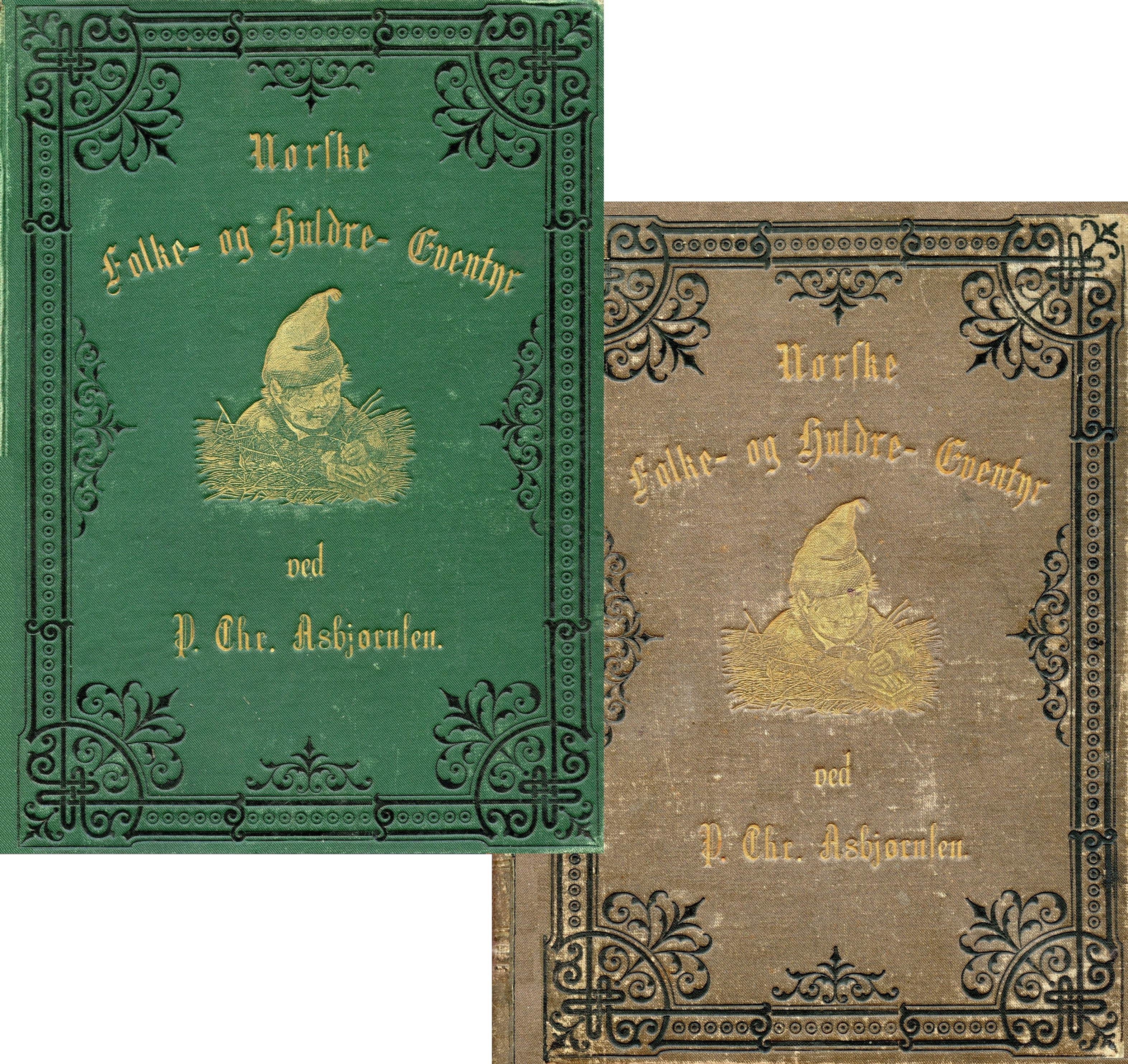 Book of Folktales with an ancestor spirit, a nisse, on front.